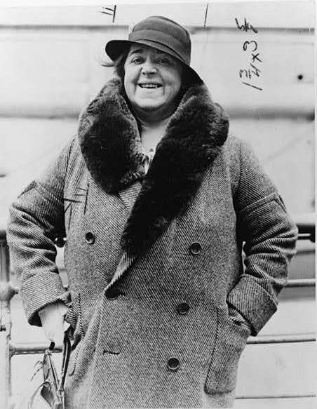 LOC cph.3c26704. Elsa Maxwell, 1933